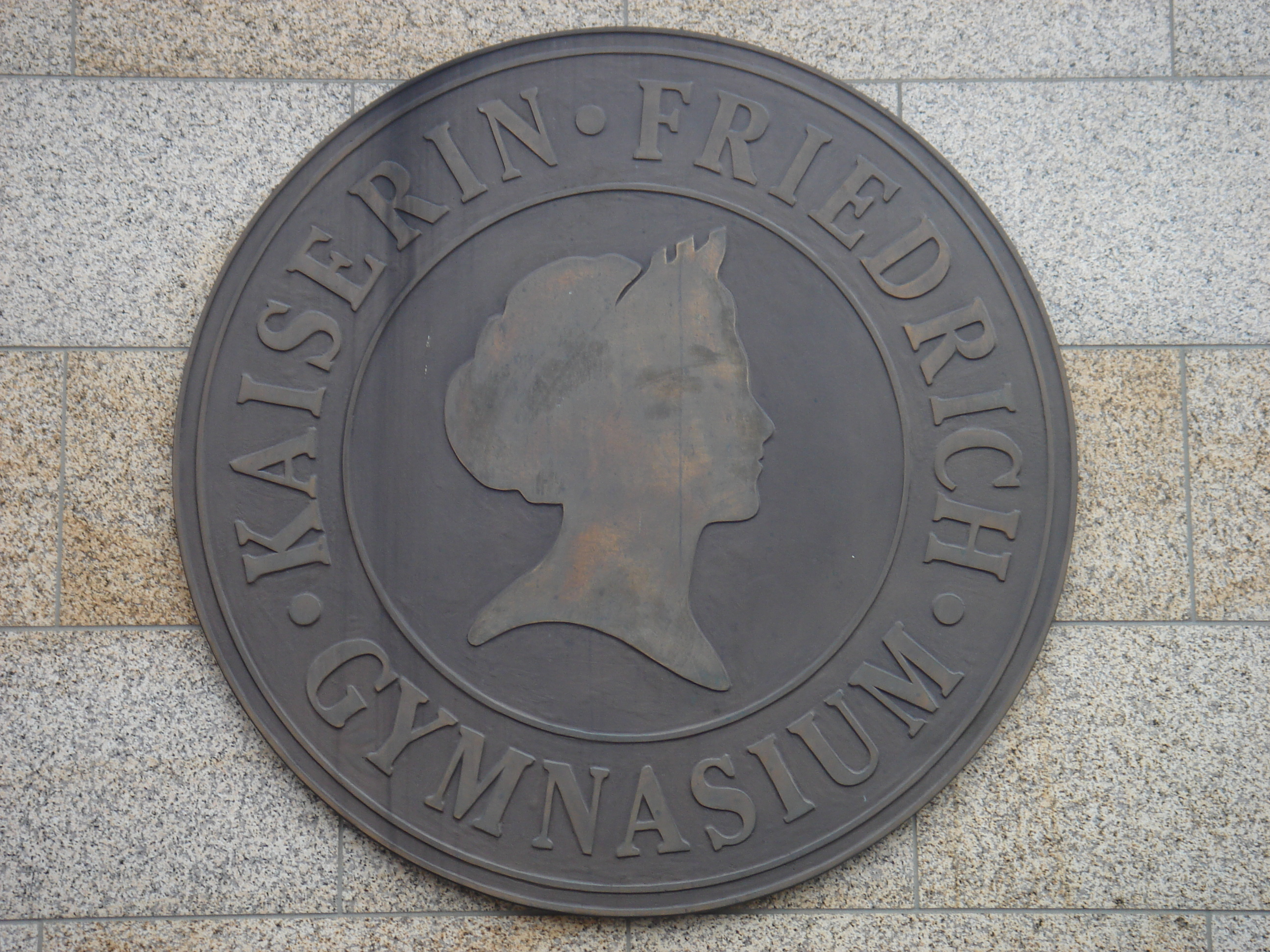 Logo at the wall of the Kaiserin-Friedrich-Gymnasium, Bad Homburg vor der Höhe, Germany